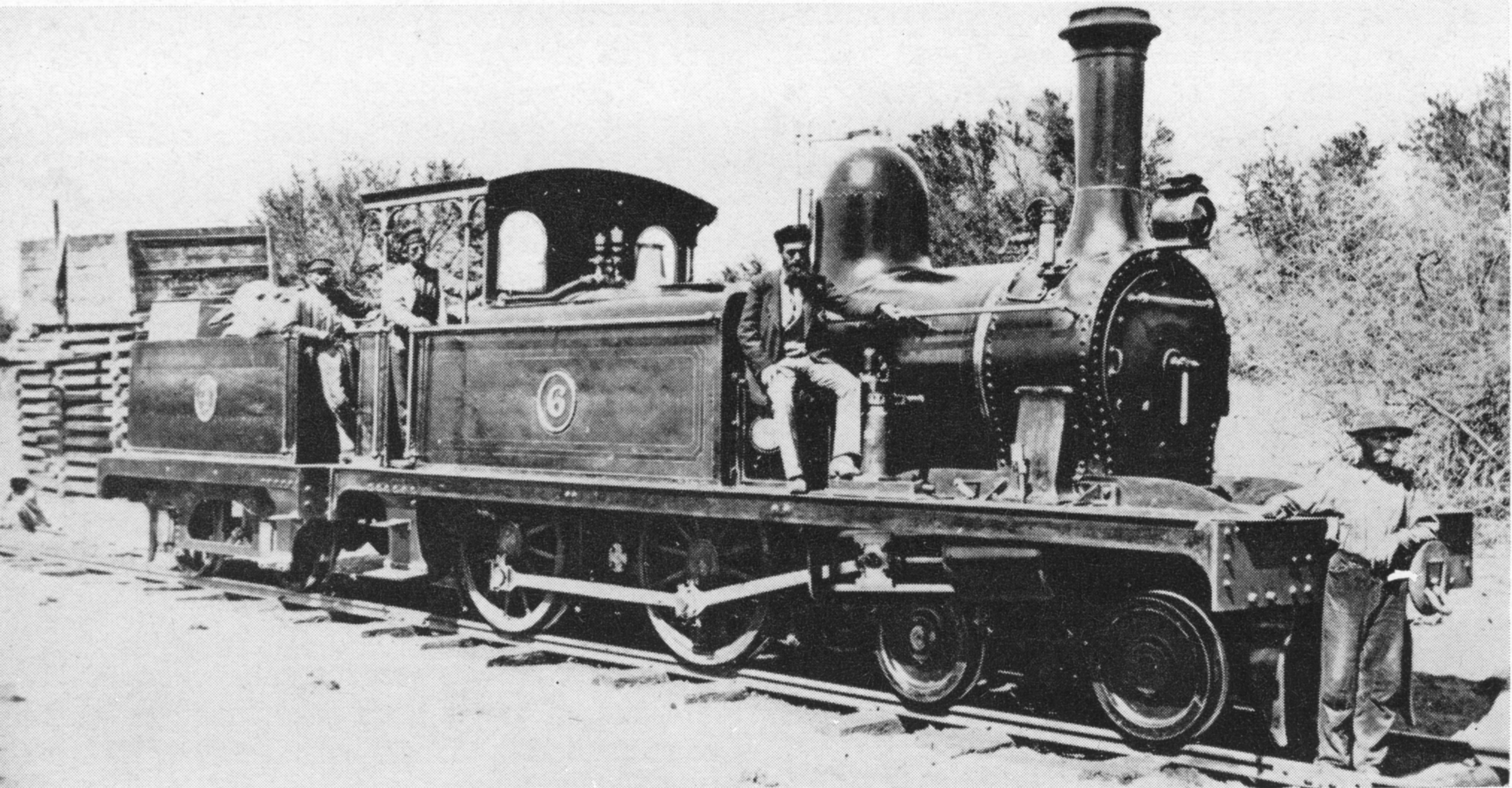 Cape Government Railways 1st Class 4-4-0T no. 6 (1875-1881 group) with optional tender no. 4